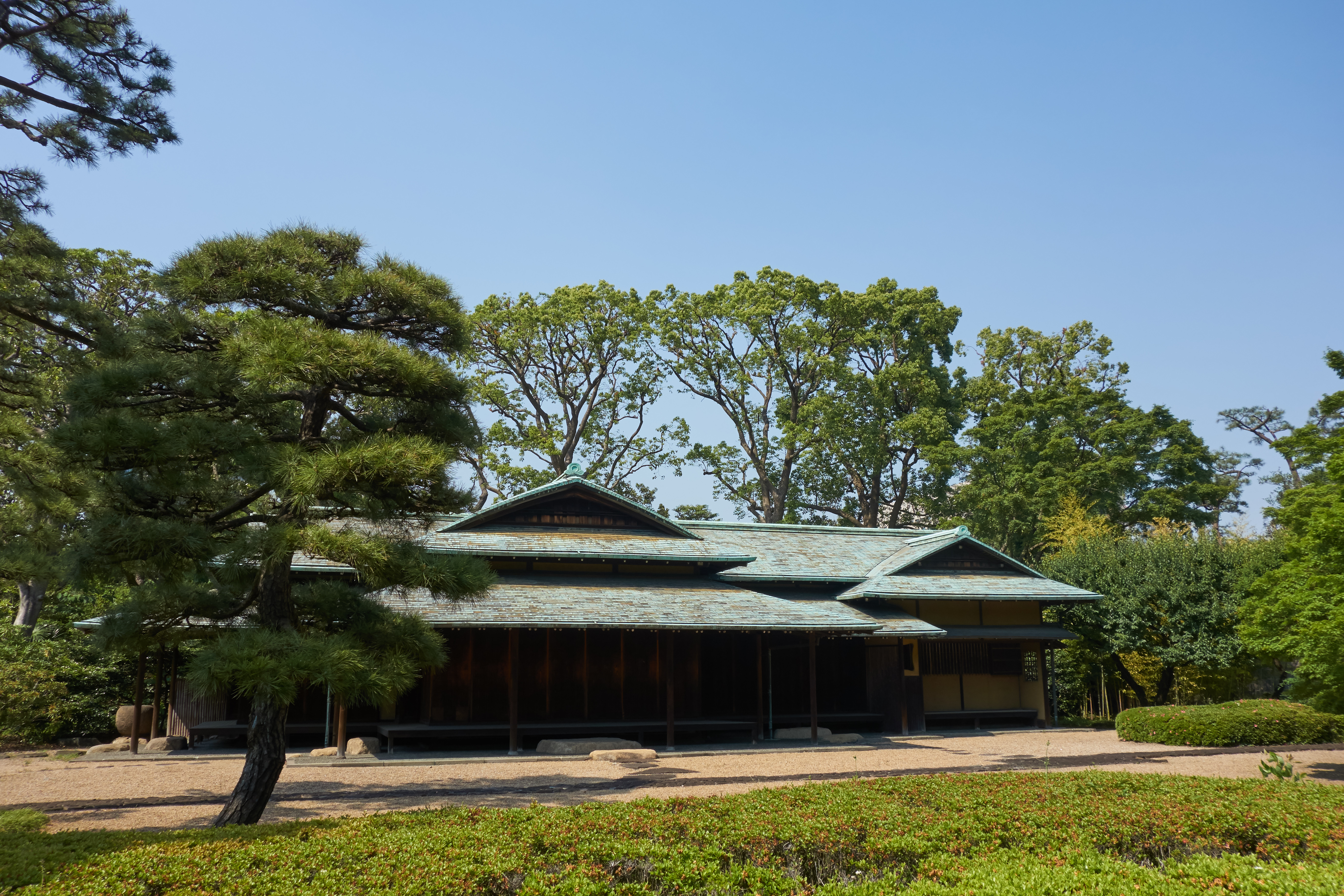 Suwa-no-Chaya Tea House, May 2017